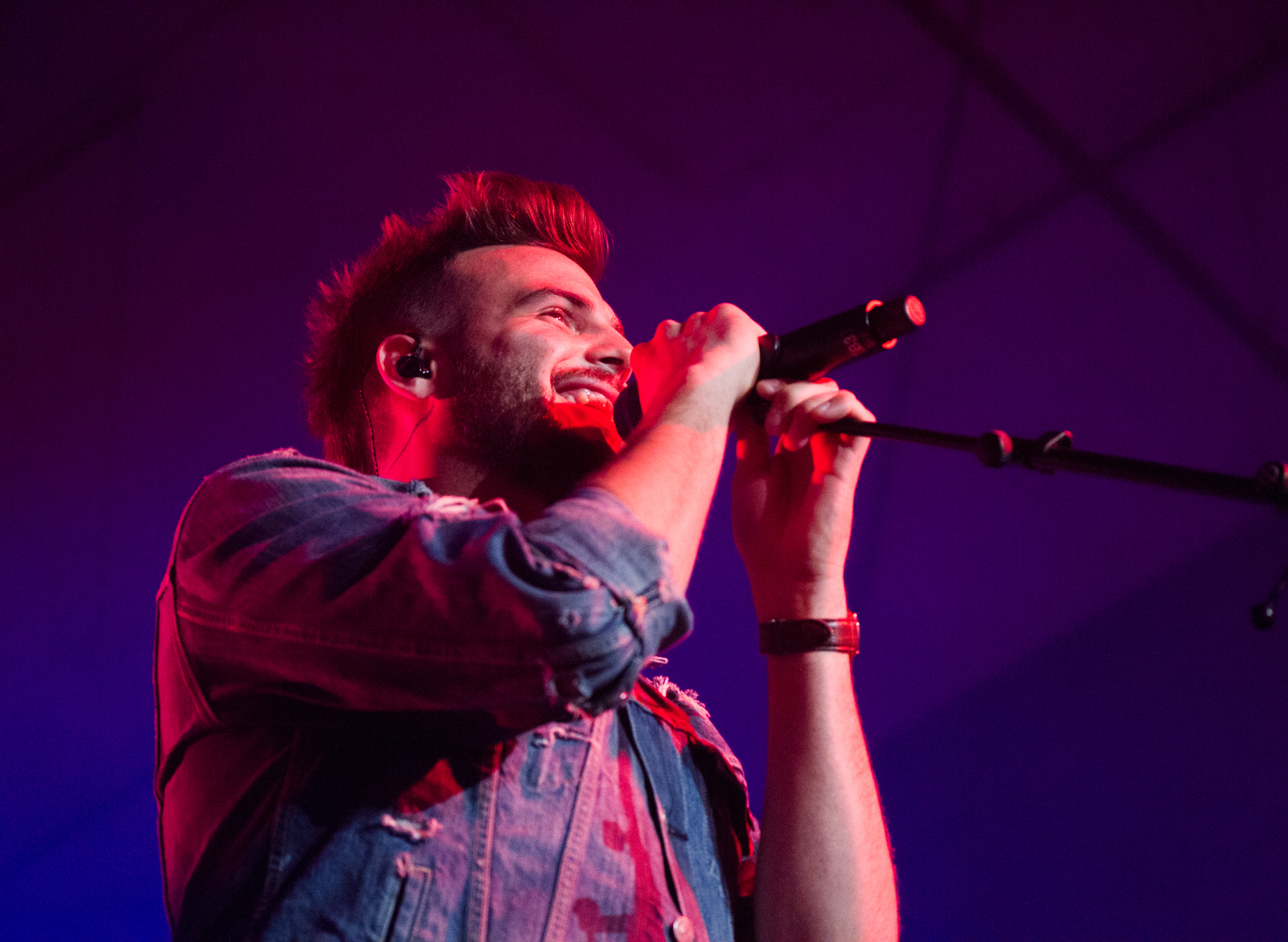 Jackie Lee performing at Hanson Ag Center in October 2017